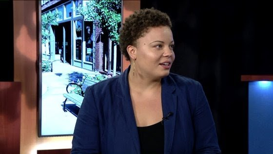 Vanessa McNeal talking about Gridshock on Who Tv News